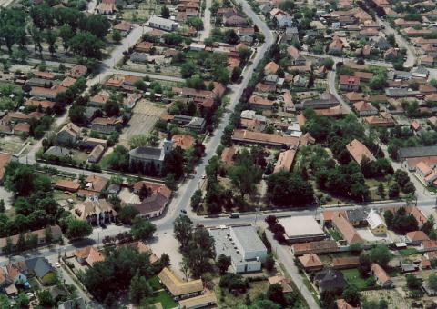 Orgovány, Hungary, aerialphotgraphy